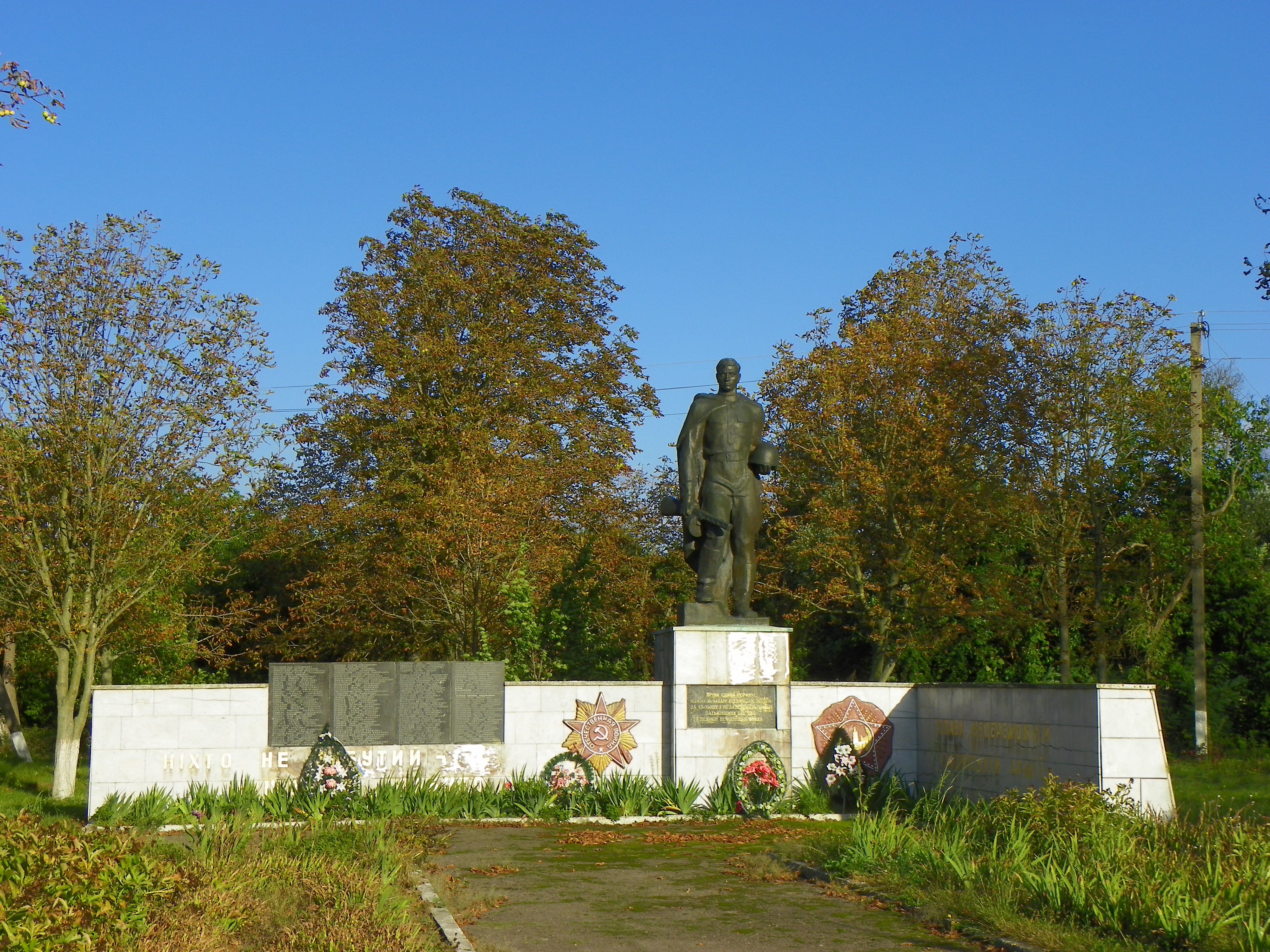 Monument to 186 soldiers and fellow villagers who died on the fronts of the Great Patriotic War, Zbarzhivka, Vinnytsa region, Ukraine.